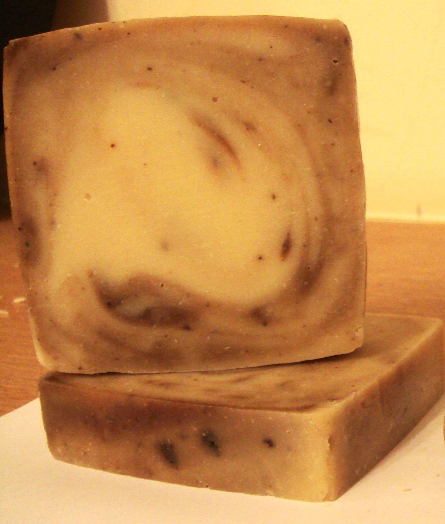 Handmade Soap